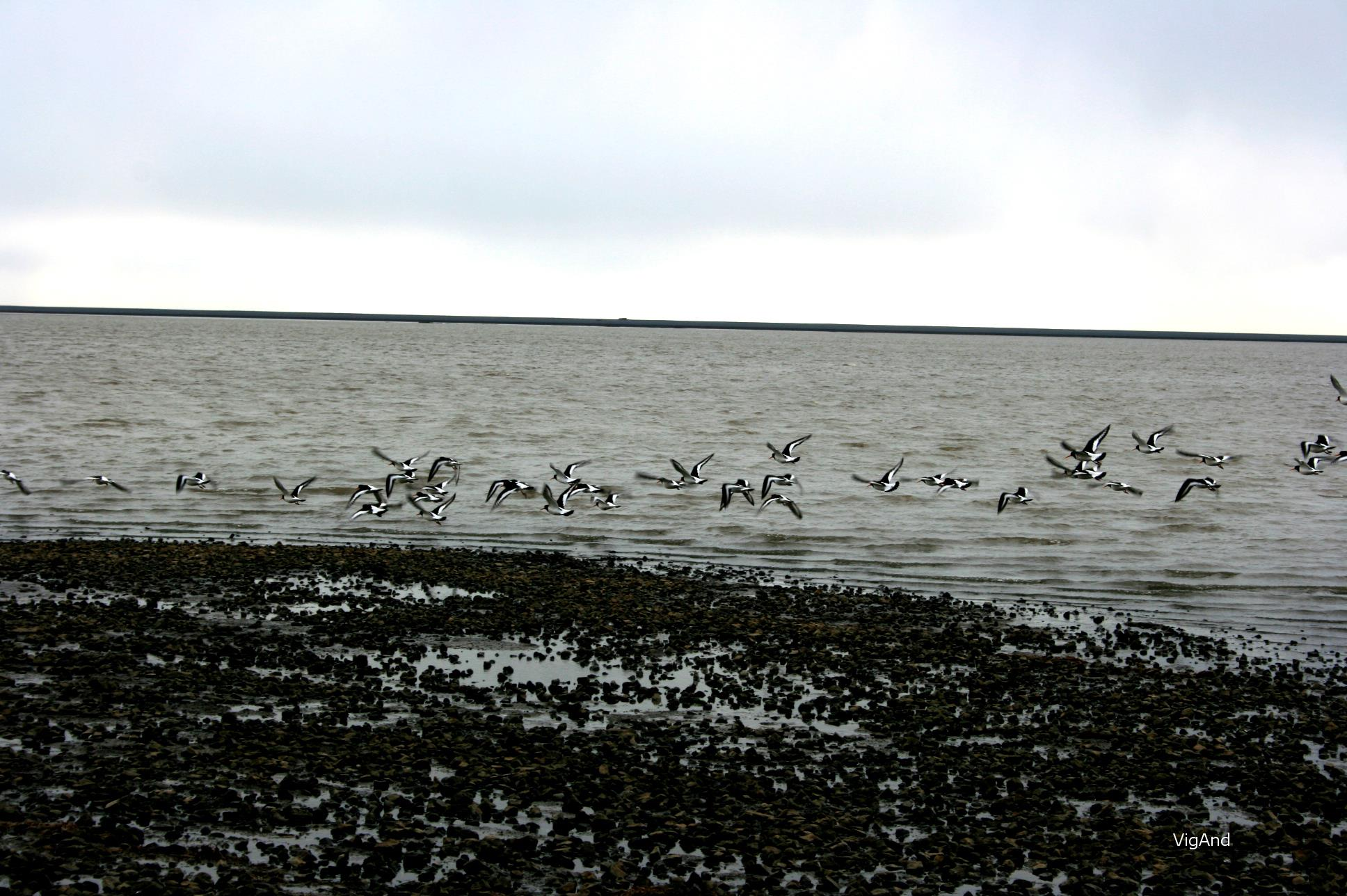 Holtsós